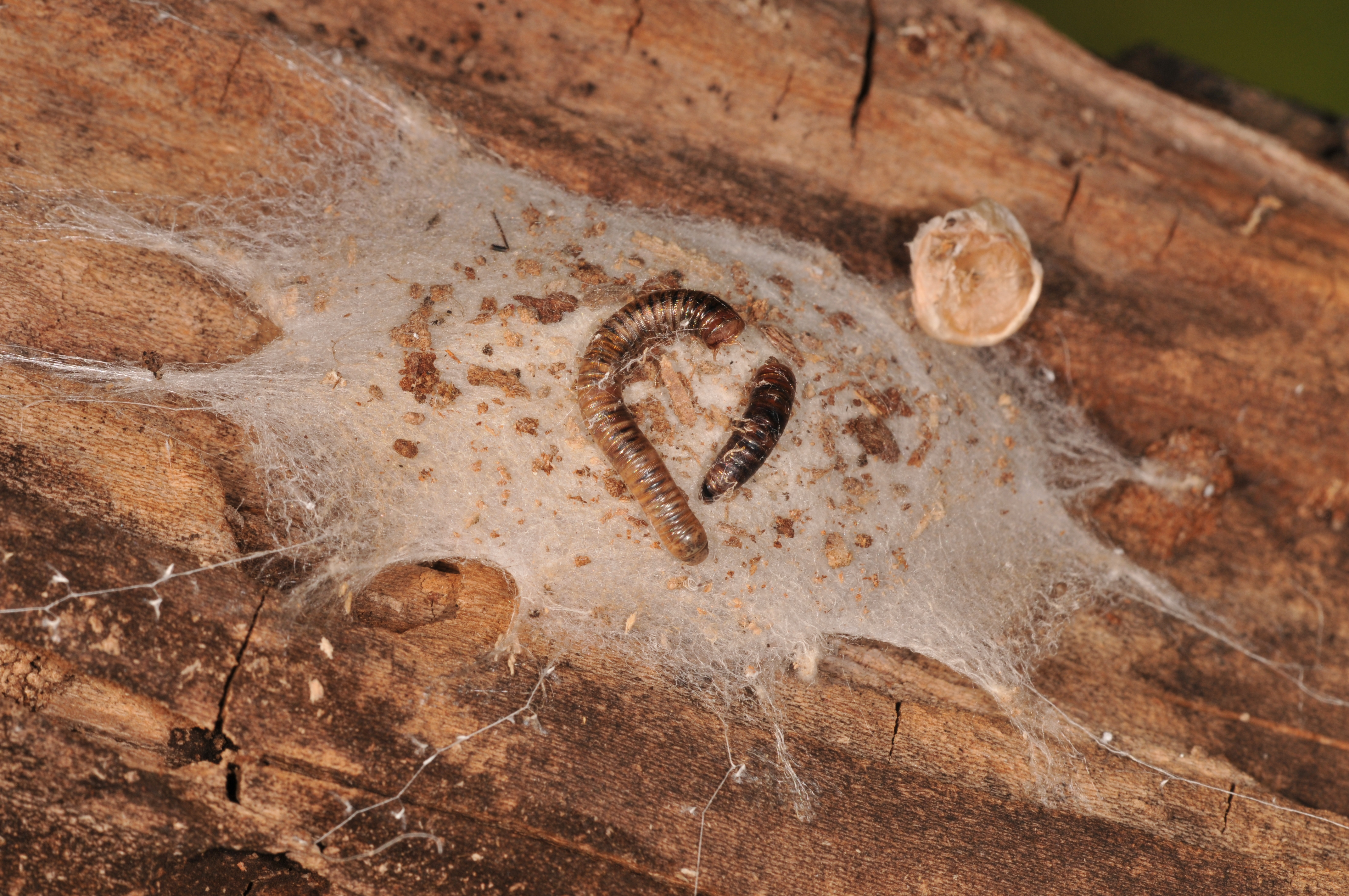 Uroctea durandi, Croatia, Istria, Brseč 15 km south Lovran, 45°10`23,80``N 14°13`37,25``E